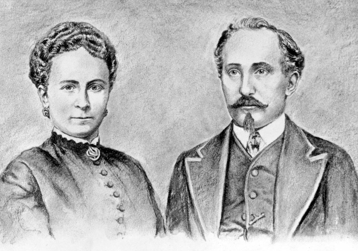 Adam and Sophie Opel (née Scheller) in 1868, the year of their marriage.